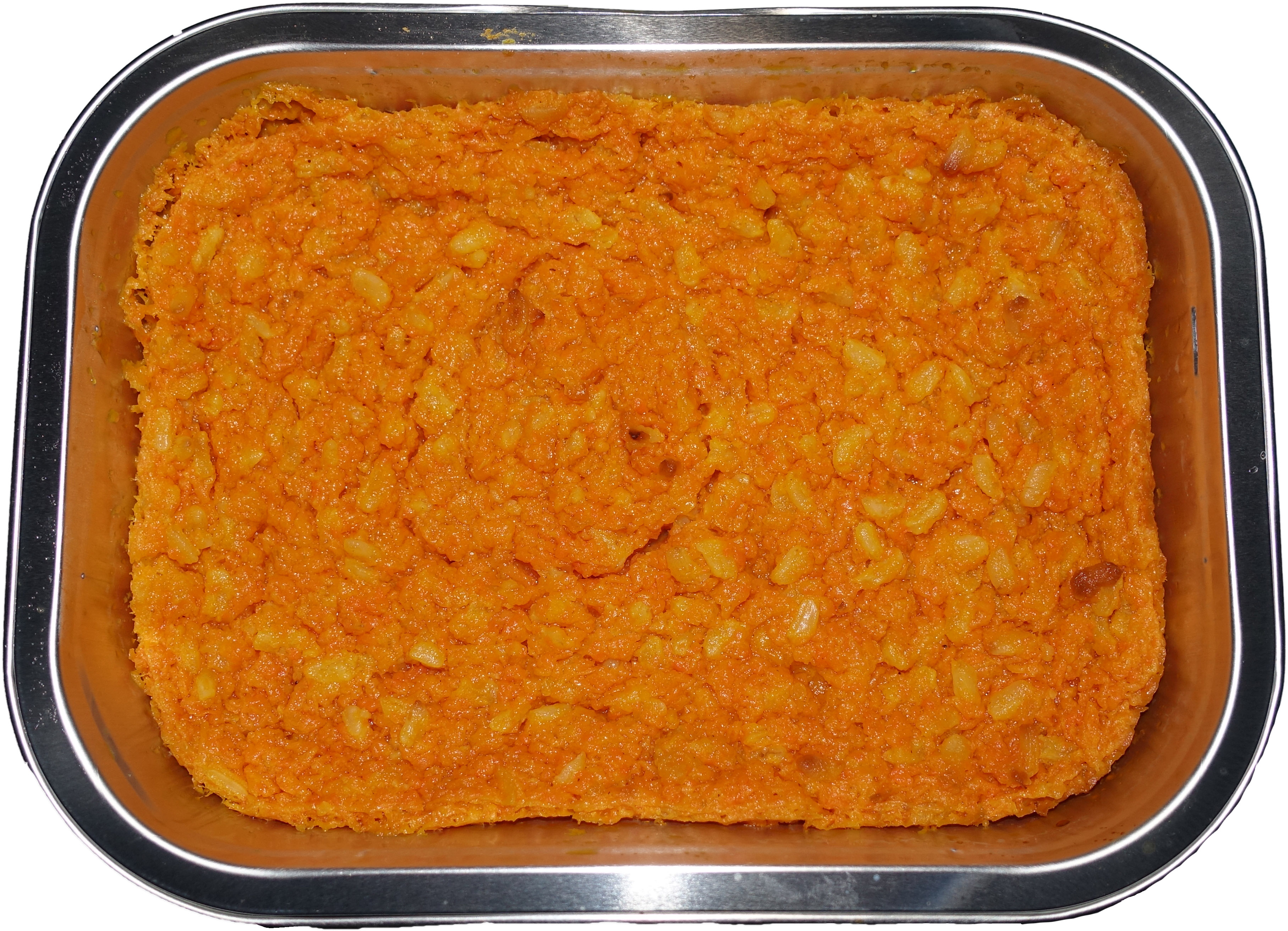 Carrot casserole, Finnish christmas food.